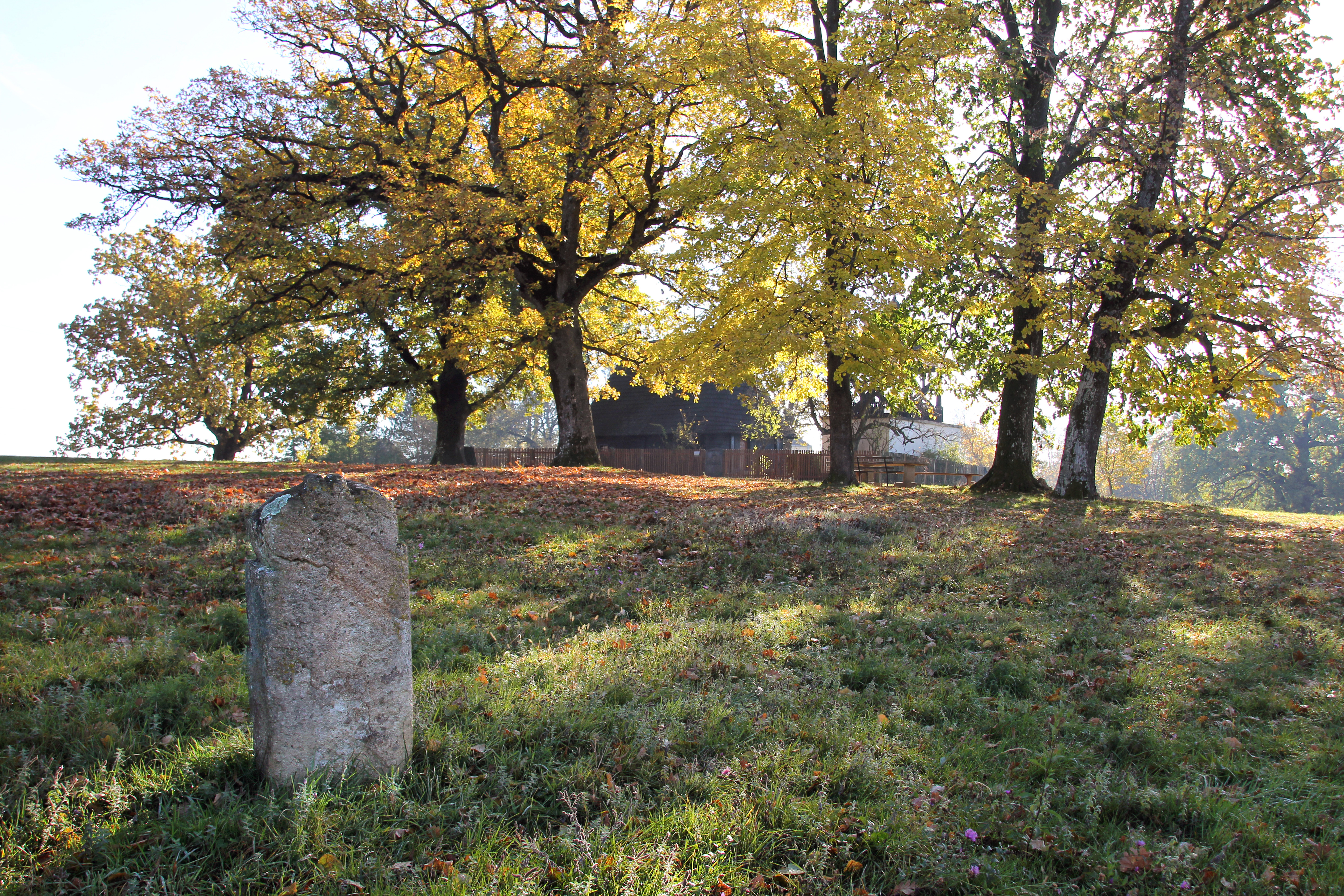 Gravestone at the churchyard of wooden church in the village of Ljutovnica (the municipality of Gornji Milanovac), Serbia.